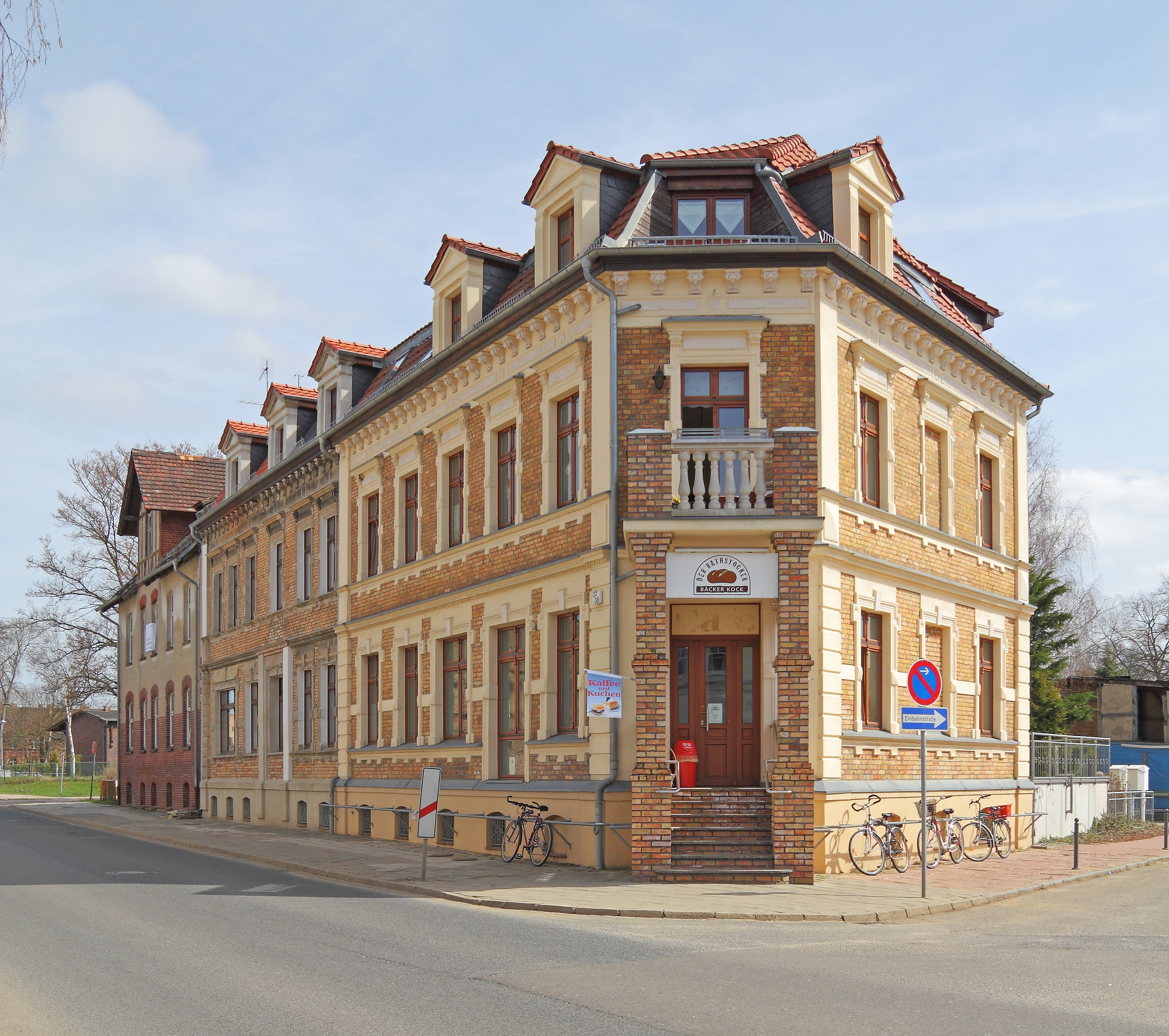 Old house with bakery in Briesen (Mark), Brandenburg, Germany